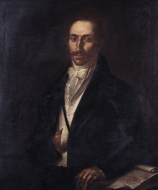 Portrait of Georgios Pyrris, Harbour master of Zante